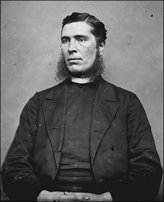 1 negative : glass, wet collodion, b&w ; 11 x 16.5 cm.